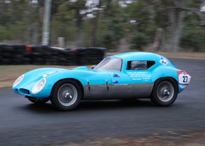 Centaur Waggott GT at Leyburn Historic Sprints, August 19, 2007. Photo by Graham Ruckert.